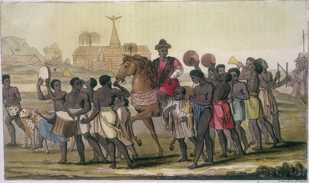 An Oba of Benin